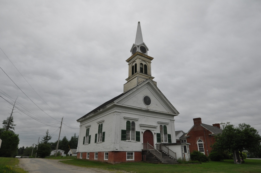 An old church building in Harrington, Maine